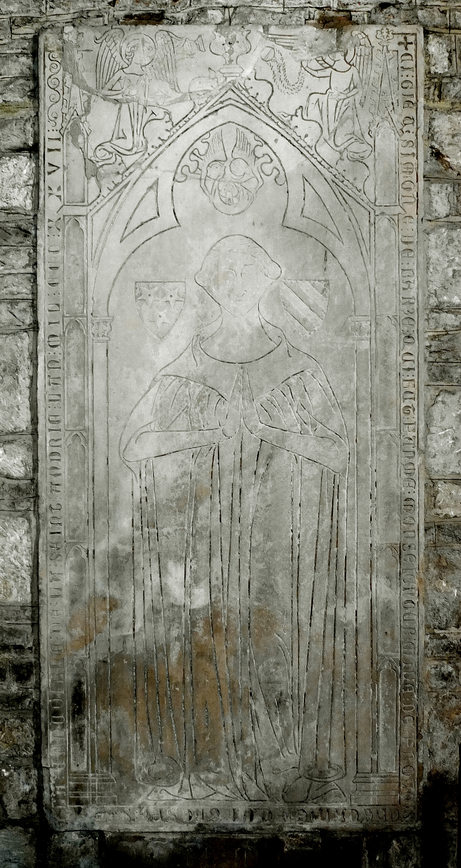 Epitaph of Simone de Berzé († 1327), Abbaye Saint-Philibert de Tournus, France.